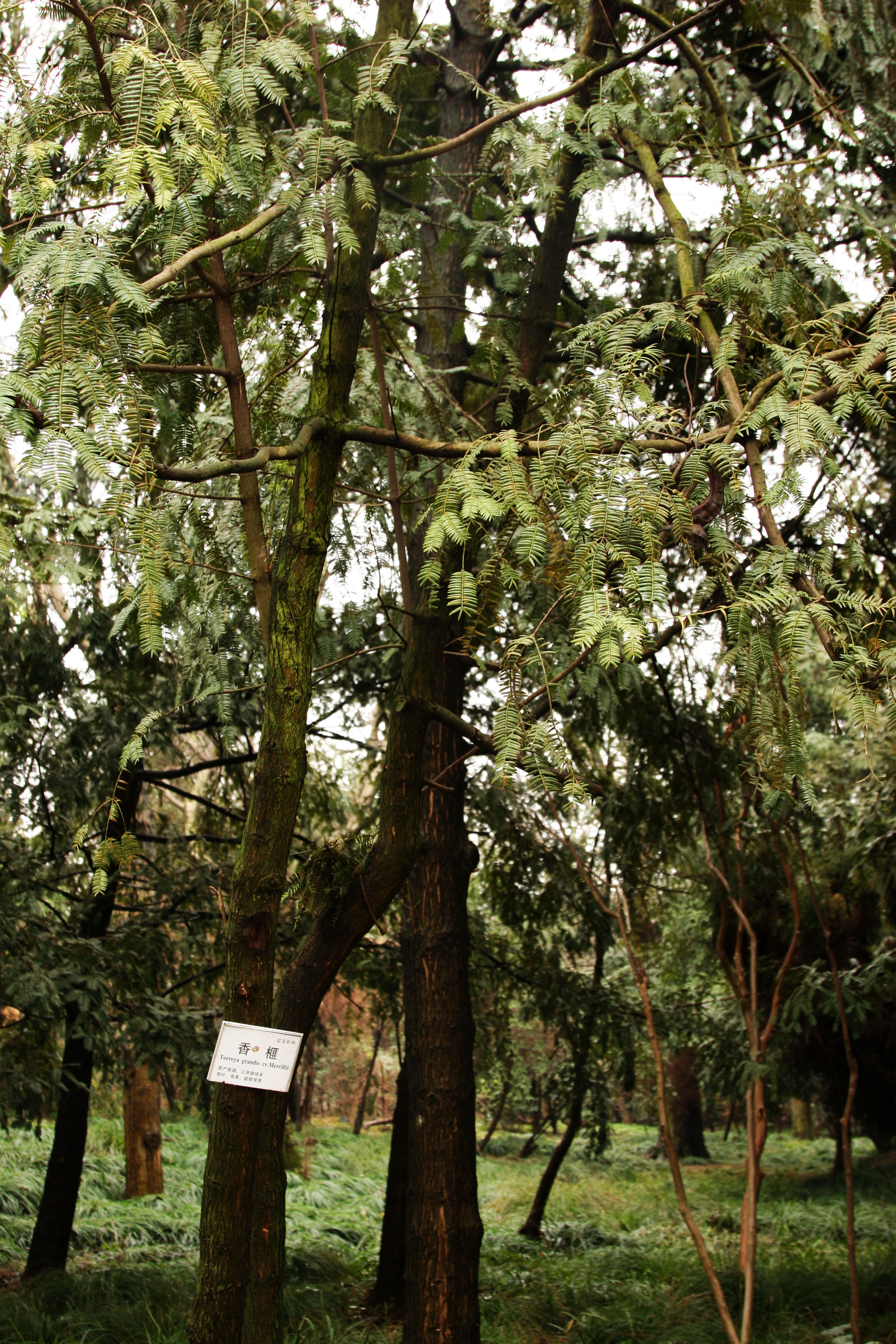 Torreya grandis